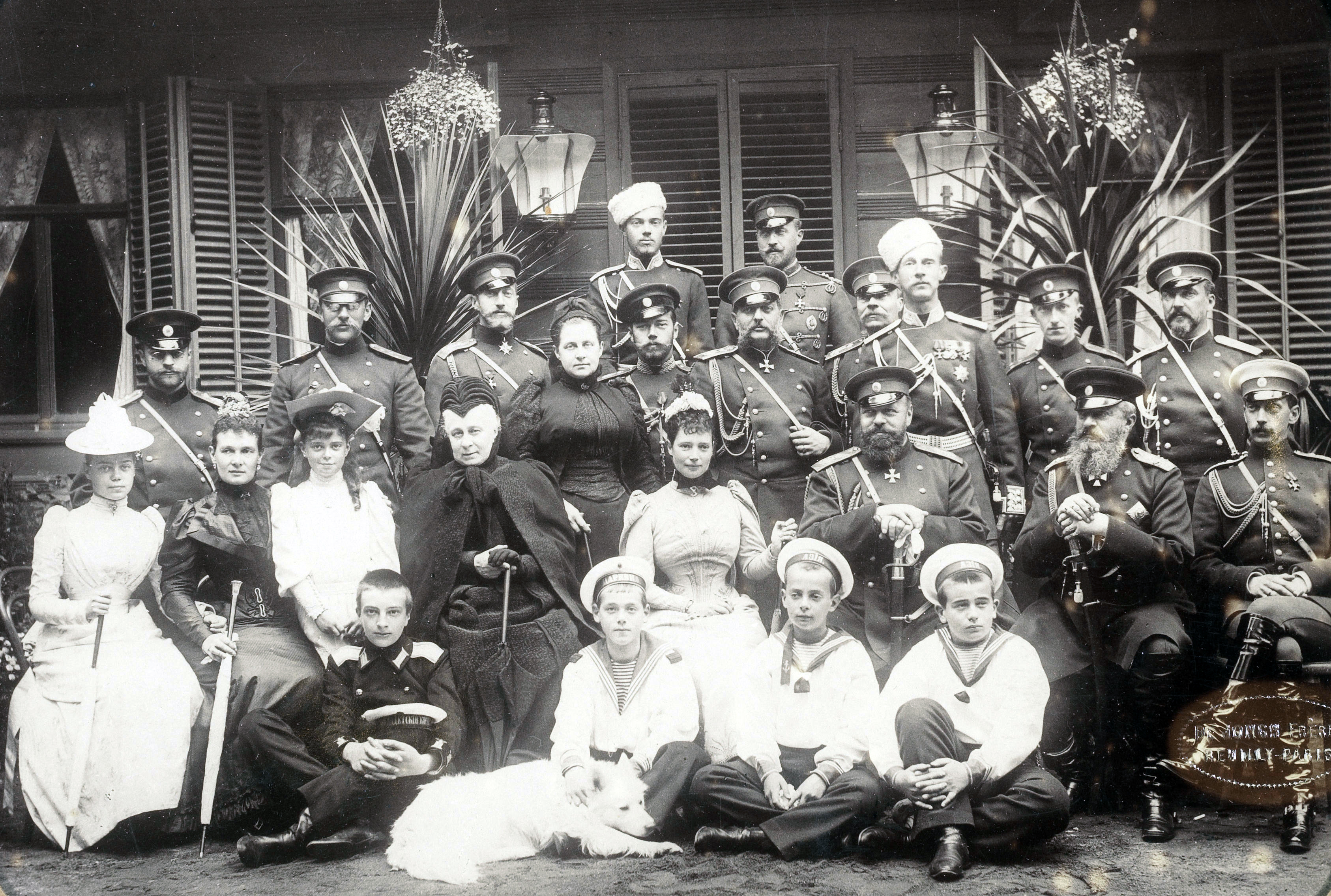 A gathering of members of the Romanov family in Krasnoe Selo (?) in 1887, 1891 or 1892. (Front row, seated) Grand Duchess Xenia, Grand Duchess Maria Pavlovna the elder, Grand Duchess Elena Vladimirovna, Grand Duchess Alexandra Iosifovna, Empress Maria Feodorovna, Tsar Alexander III, Grand Duke Michael Nicholaievich and Grand Duke Paul Alexandrovich. (Immediately behind) Dukes Carl Michael and Georg of Mecklenburg-Strelitz (great-grandsons of Tsar Paul I), Grand Duke Konstantin Konstantinovich, his sister Olga Queen of the Hellenes, Tsarevich Nicholas (later Tsar Nicholas II), Grand Duke Vladimir Alexandrovich, Grand Duke Dimitri Konstantinovich (in the white hat), Duke Peter of Oldenburg (a great-great grandson of Tsar Paul I), and Duke George of Leuchtenberg (a great grandson of Tsar Nicholas I). (Back row) Grand Duke Sergei Mikhailovich, Grand Duke Nicholas Nicholaievich the younger, Duke Alexander of Oldenburg (Duke Peter’s father, peering over the shoulder of Grand Duke Dimitri). The boys in the front are Grand Duke Alexei Mikhailovich (with the dark sailor uniform), Grand Duke Michael Alexandrovich and brothers Grand Dukes Andrei and Boris Vladimirovich.